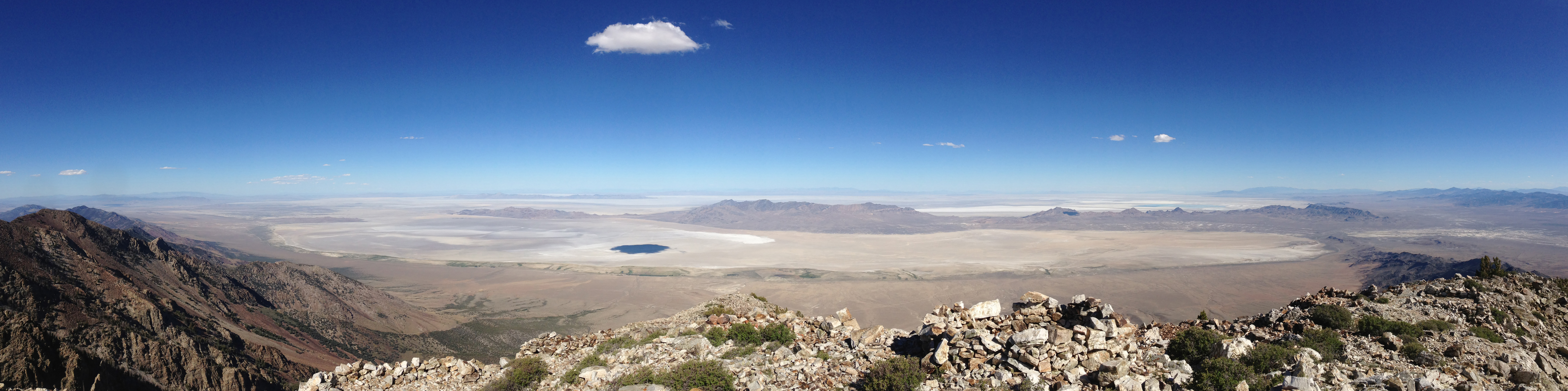 Panorama of the Great Salt Lake Desert from Pilot Peak, Nevada